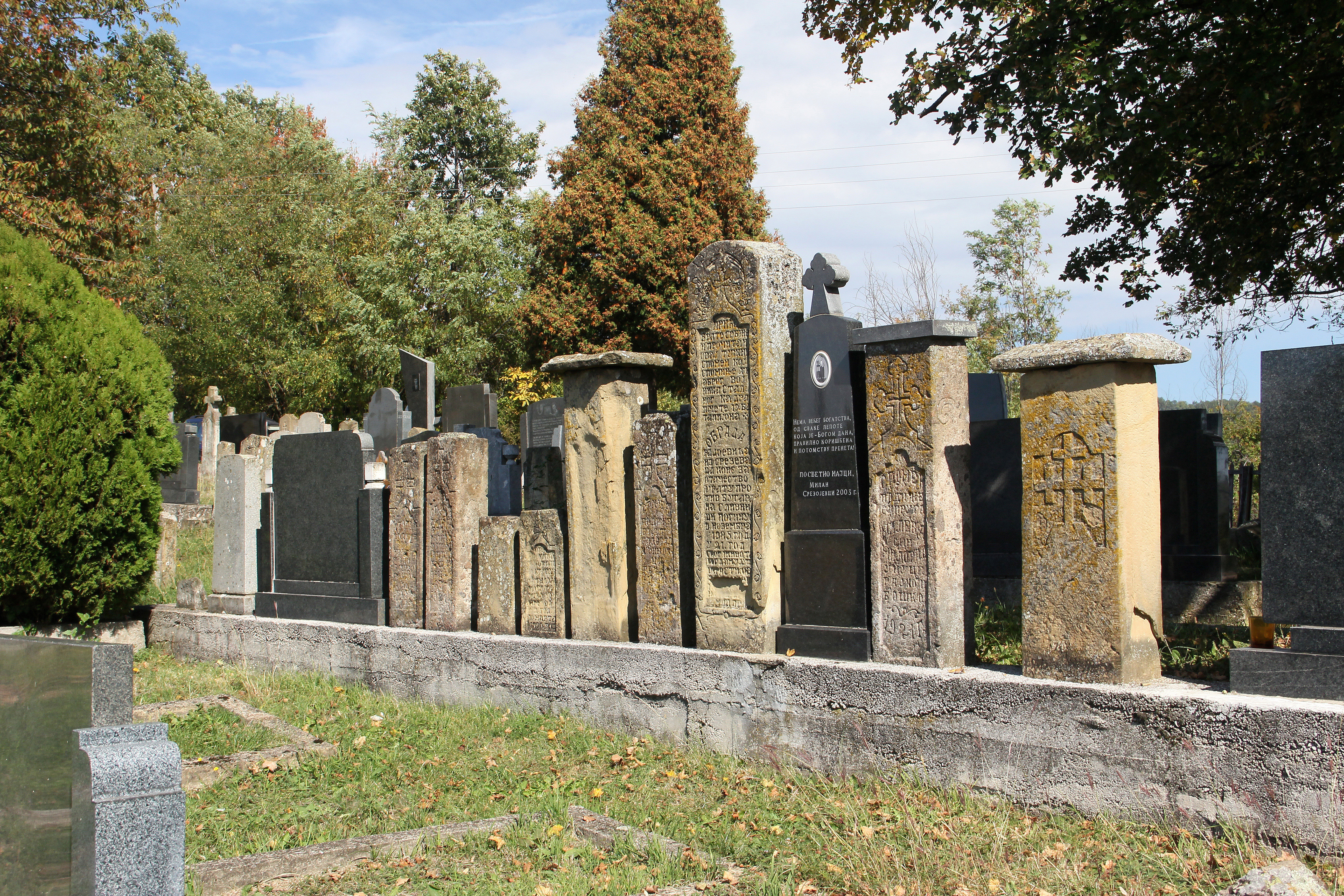 Old gravestones at the cemetery in the village of Srezojevci (the municipality of Gornji Milanovac), Serbia.